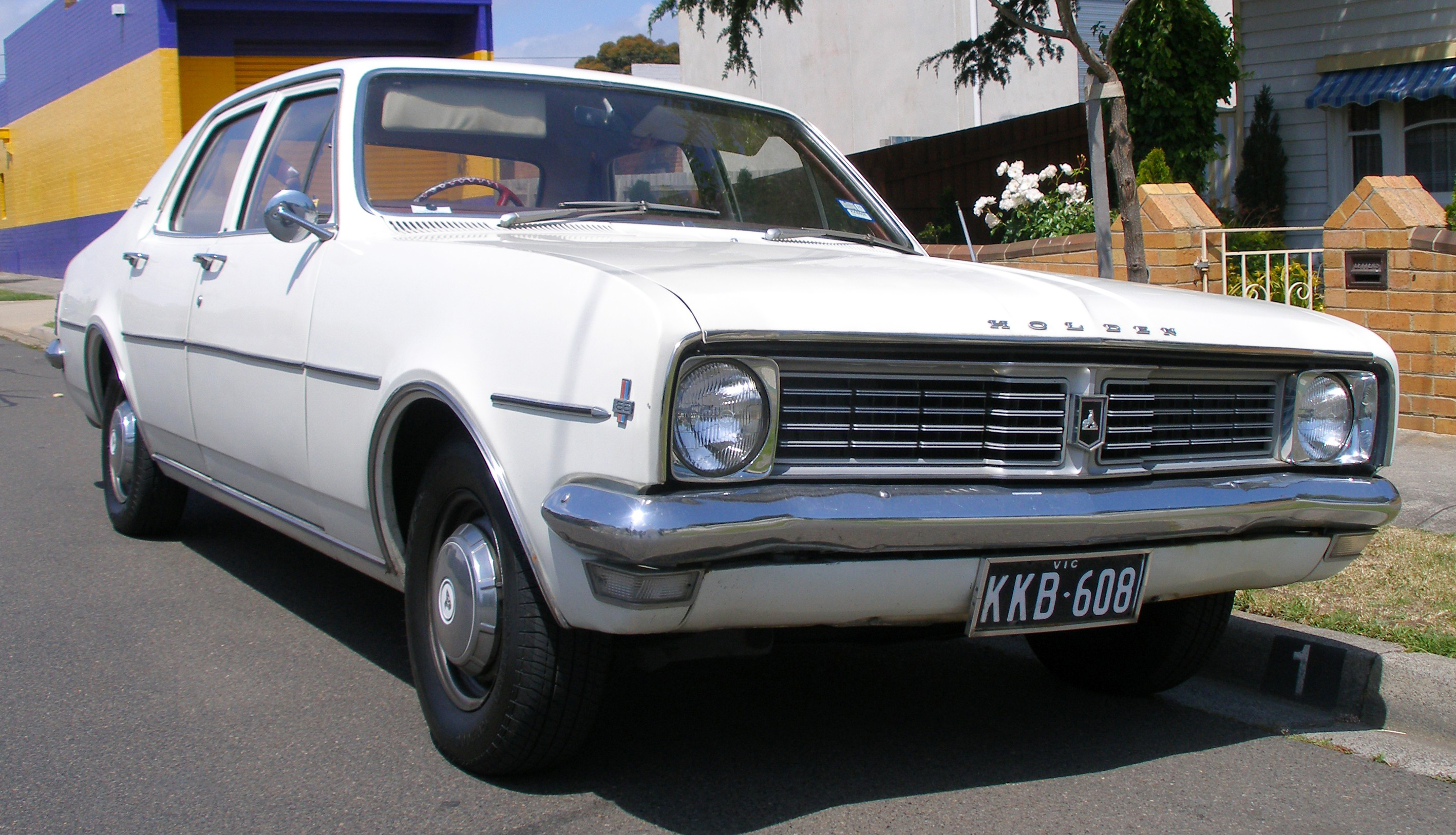 1969–1970 Holden HT Kingswood sedan, photographed in Victoria, Australia.